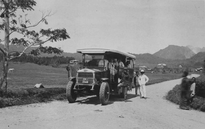 A bus of the Deli Railway Company (DSM)